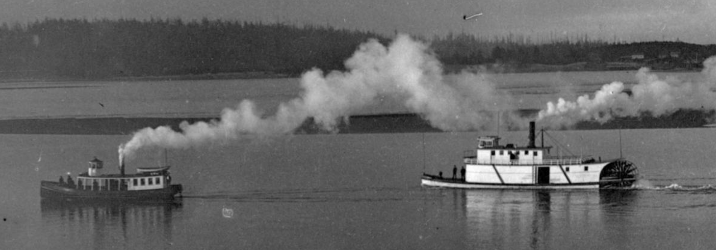 Steamers Tressa May (on left) and Montesano on Yaquina Bay, probably June 1887, but not later than early summer 1888 when Montesano was transferred to Coos Bay.